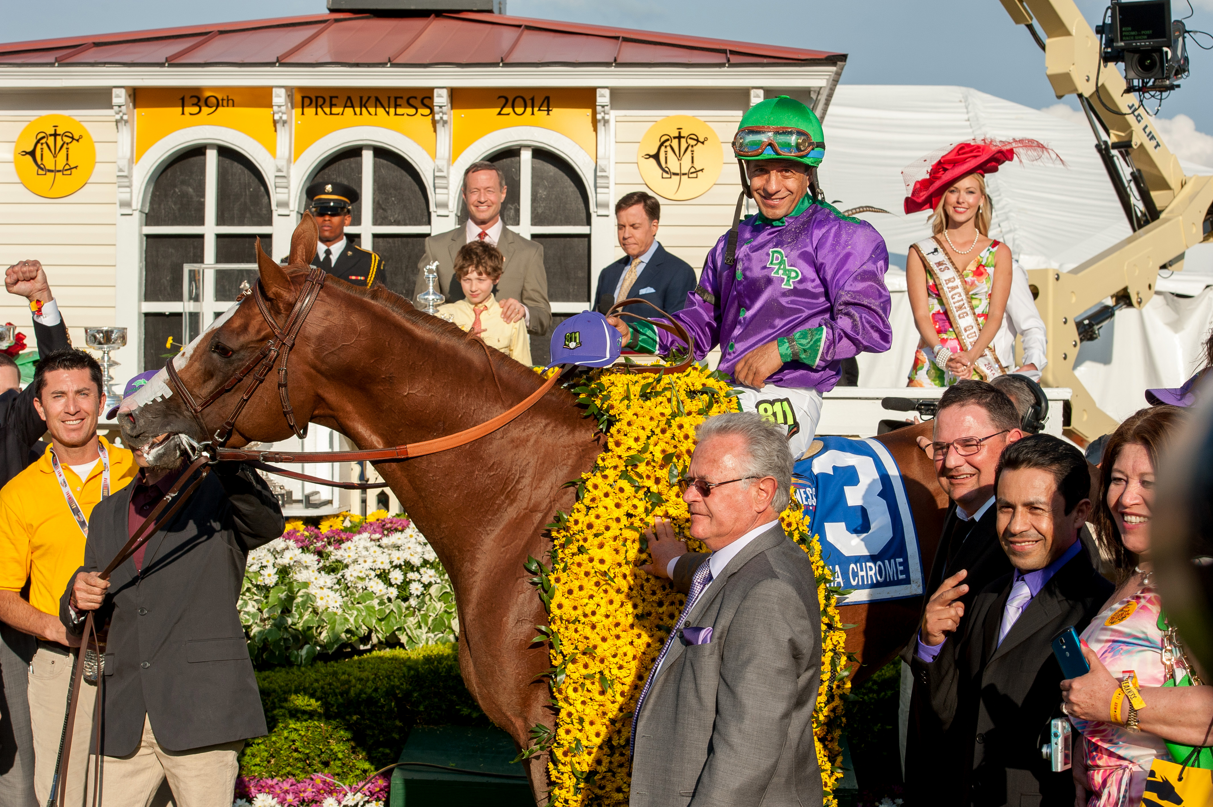 California Chrome in the winners circle of the 139th Preakness Stakes. Jockey Victor Espinoza up, trainer Art Sherman at horse's shoulder, behind him is son and assistant Alan Sherman (wearing glasses) and Espinoza's brother Jose Espinoza Photo by Jay Baker at Baltimore, MD.